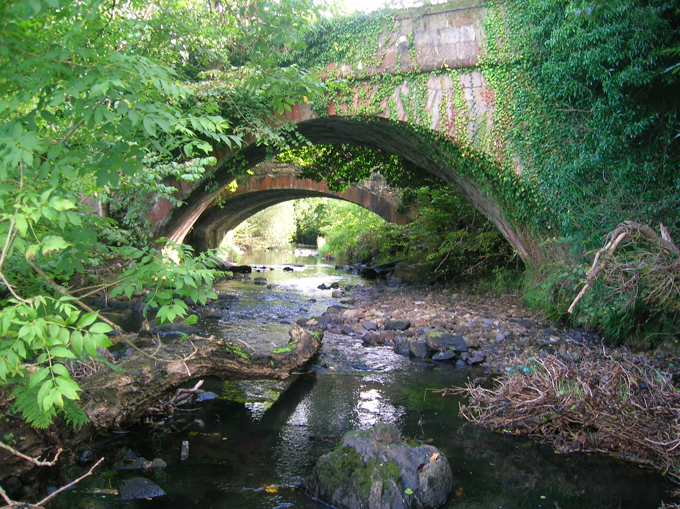 An early waggonway bridge (foreground) near Fergushill, Kilwinning, North Ayrshire, Scotland